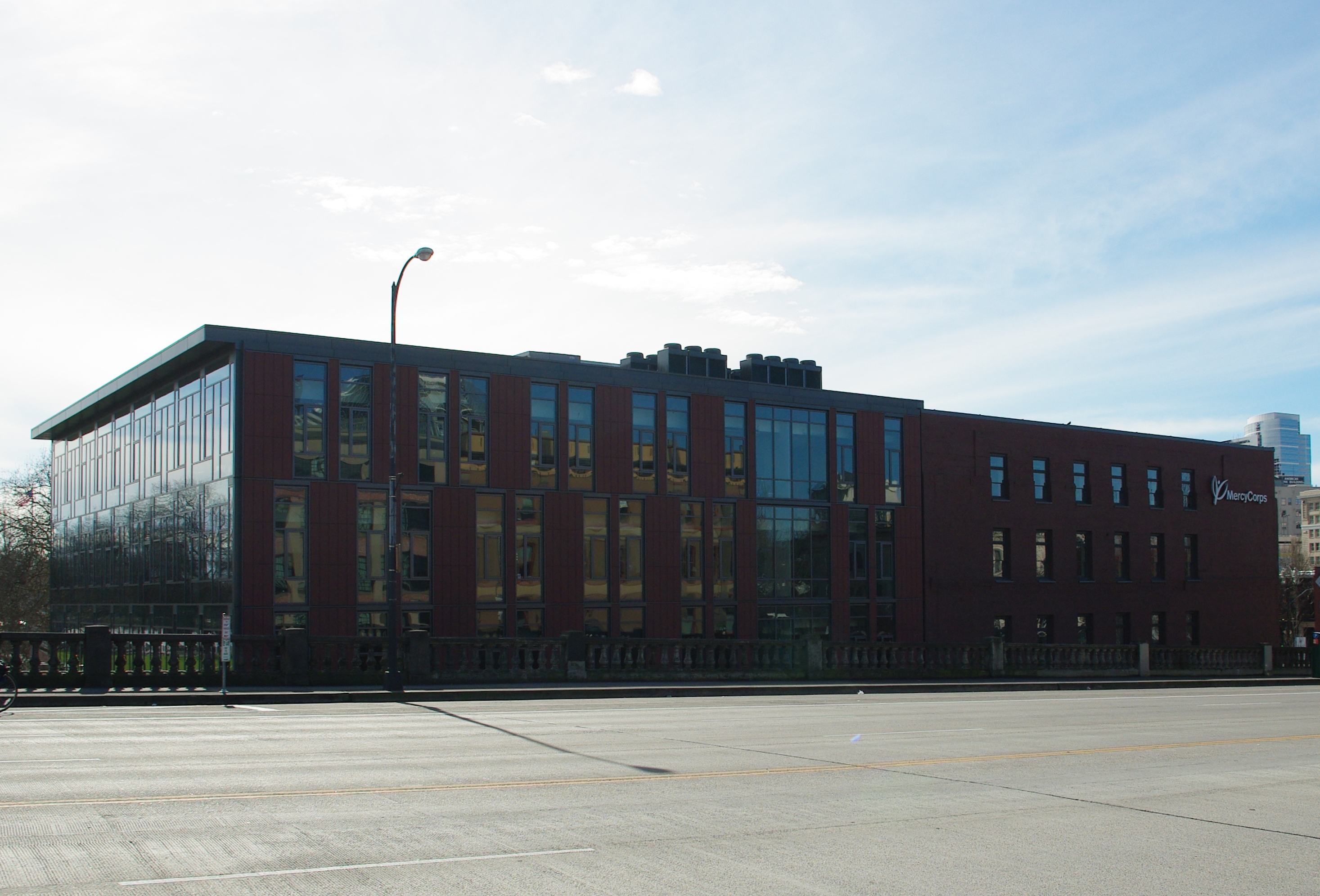 Headquarters of Mercy Corps in Downtown Portland.